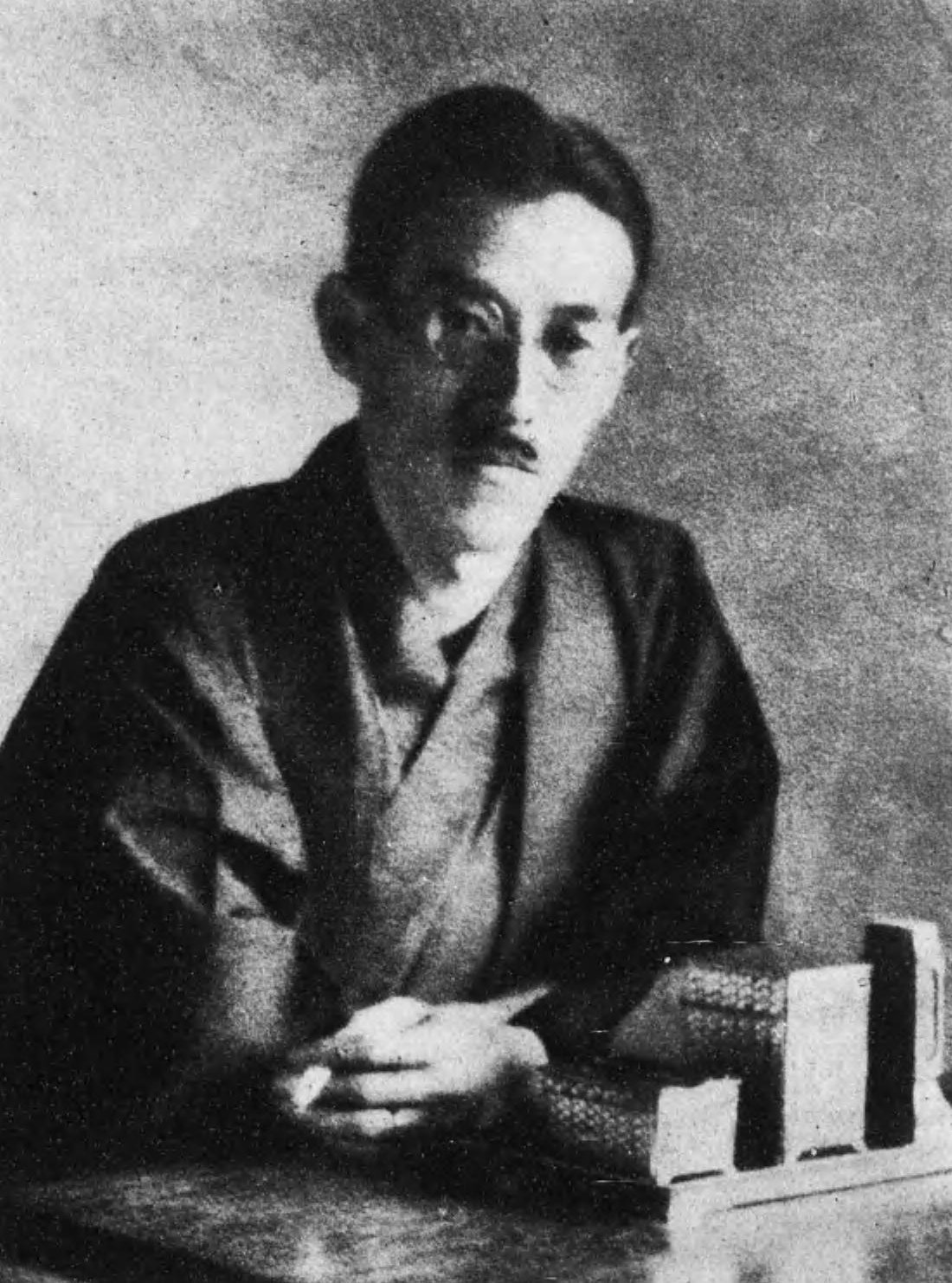 Morishige Takei